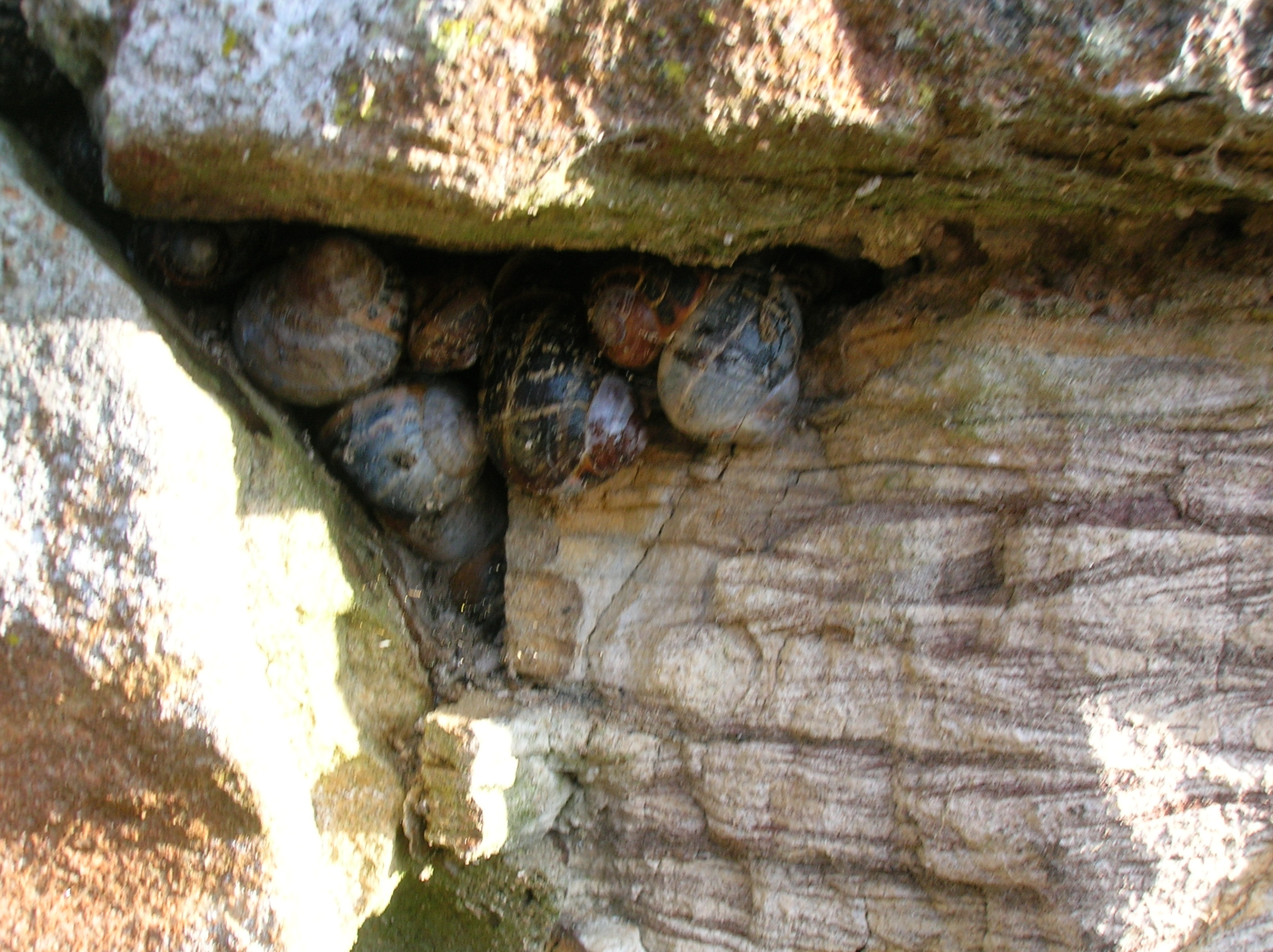 A Helix aspersa hibernaculum, Eglinton doocot, Irvine, Ayrshire, Scotland.